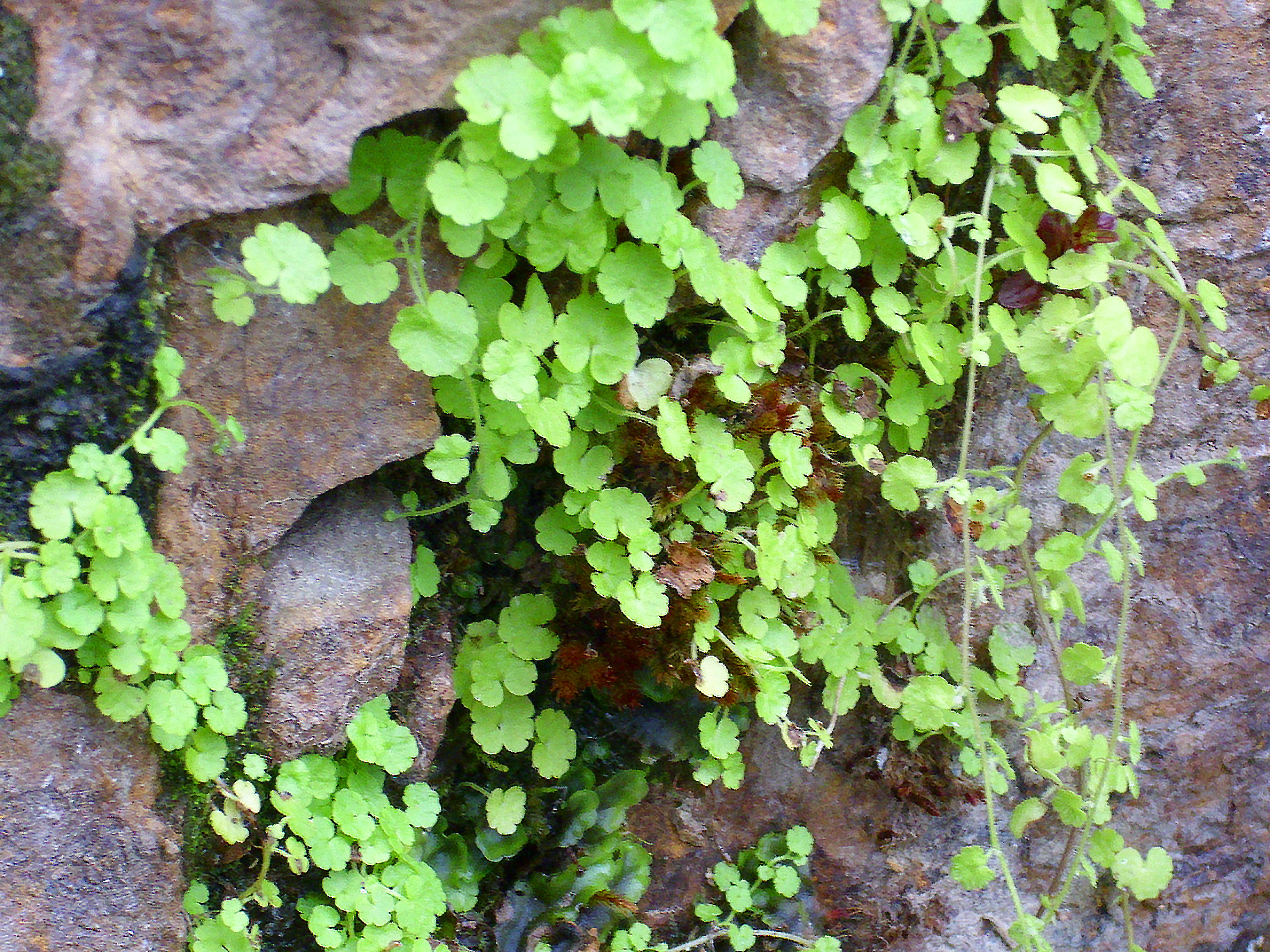 Sibthorpia europaea habit, Sierra Madrona, Spain